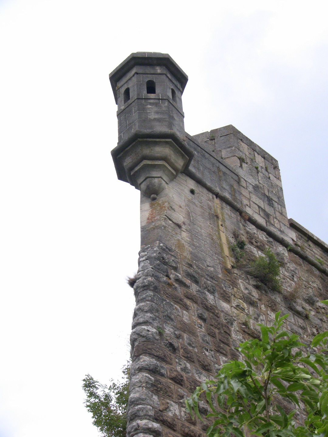 Bartizan, Citadel of Besançon, Franche-Comté, France.